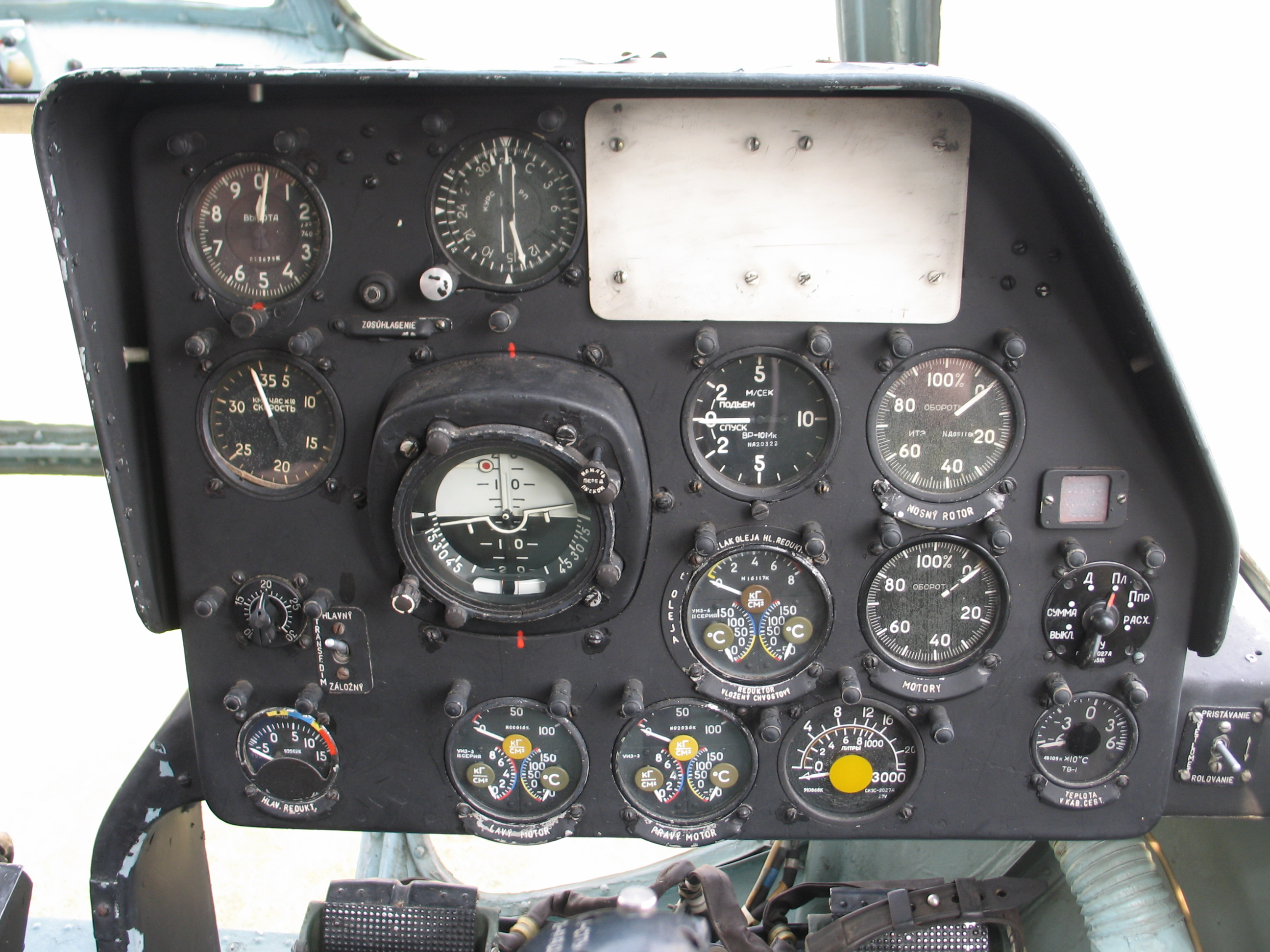 Controls of Mi-8 at museum, Prague